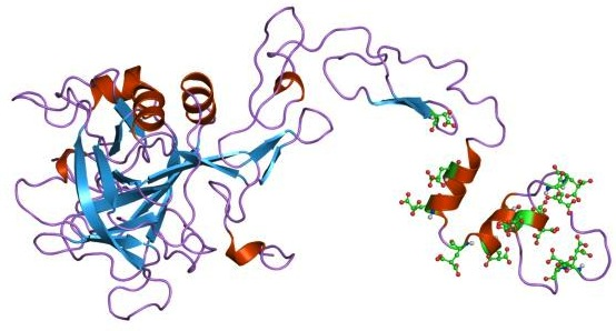 Cartoon representation of the molecular structure of protein registered with 1pfx code.